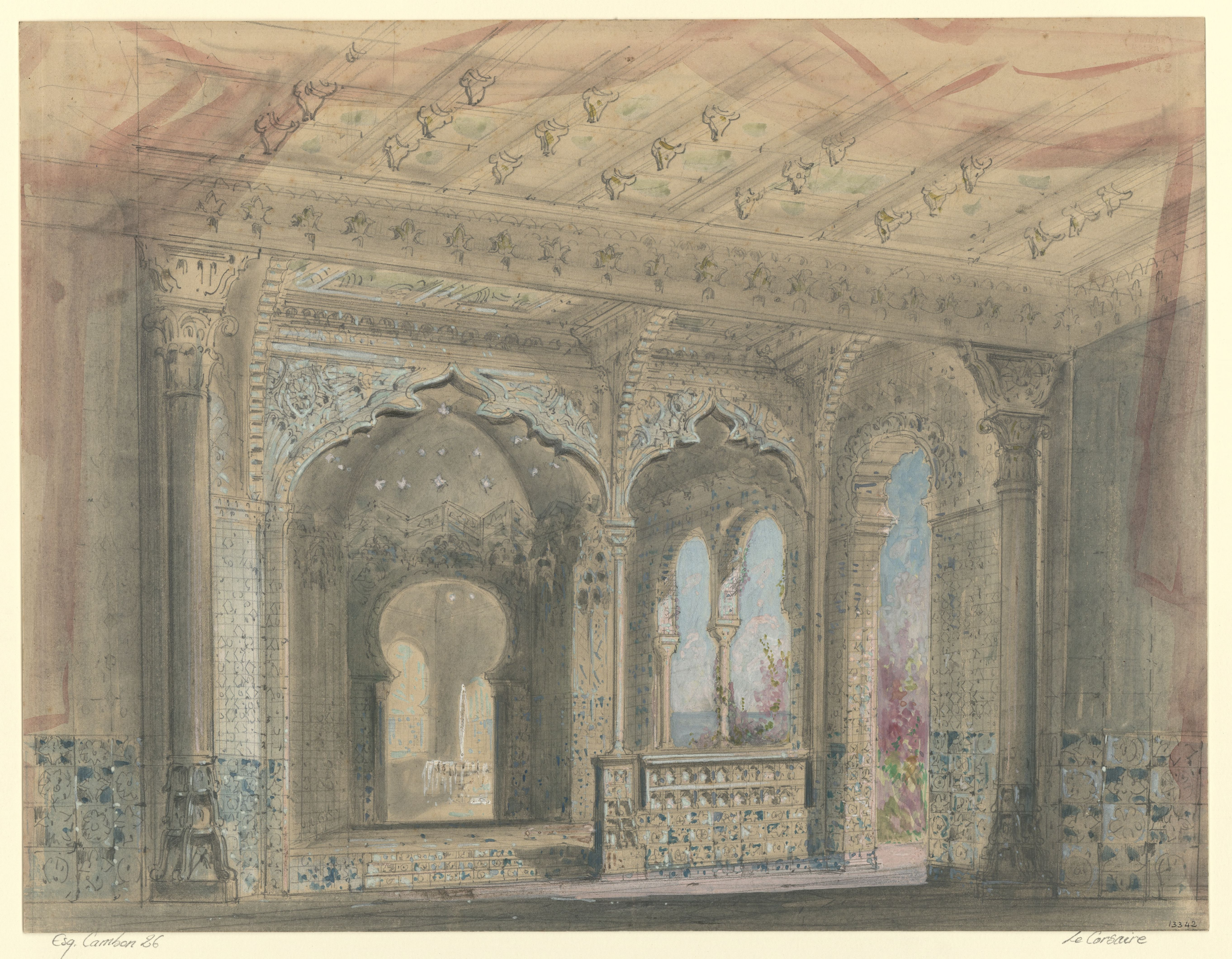 Set design for Adolphe Adam's Le Corsaire, Act III, Scene 1. Watercolour and pencil with gouache highlights, 340 x 443 mm